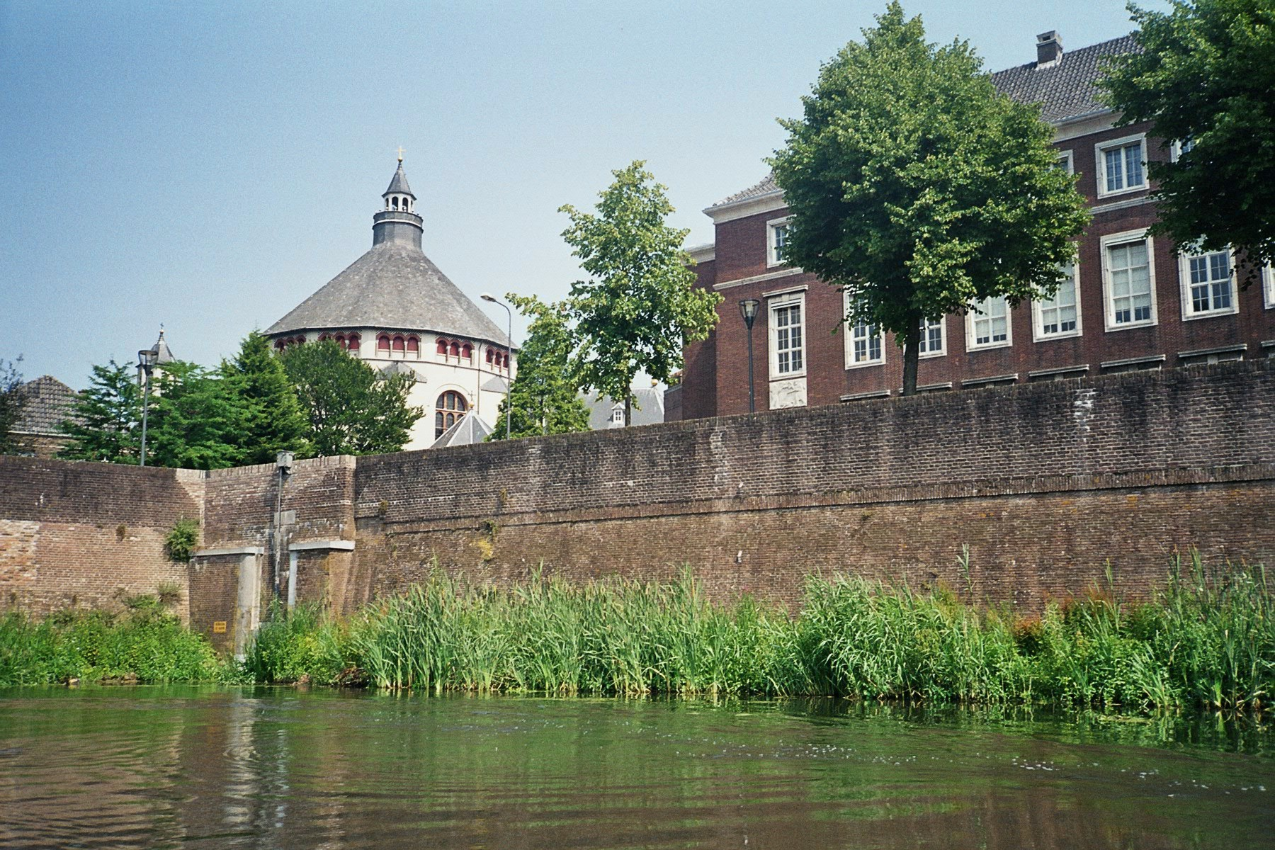 Fortification wall in Den Bosch, The Netherlands